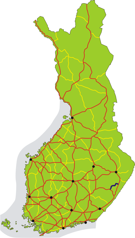 Map of main road 71 in Finland, shown in dark blue. Roads number 1-29 are red, 40-98 yellow. Black dots show the 12 biggest urban areas.